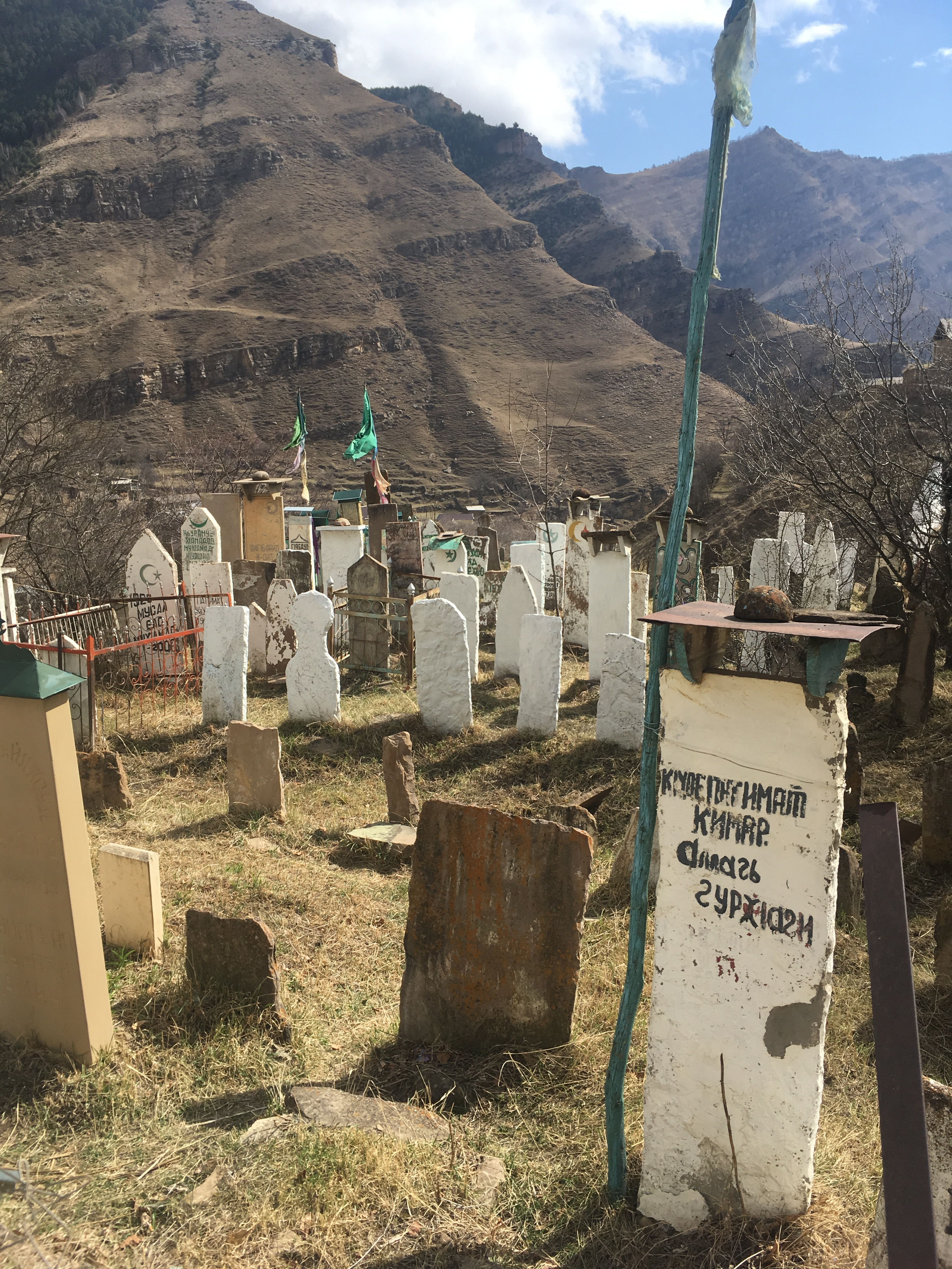 Assab village (Shamil district of Dagestan) March 15, 2020